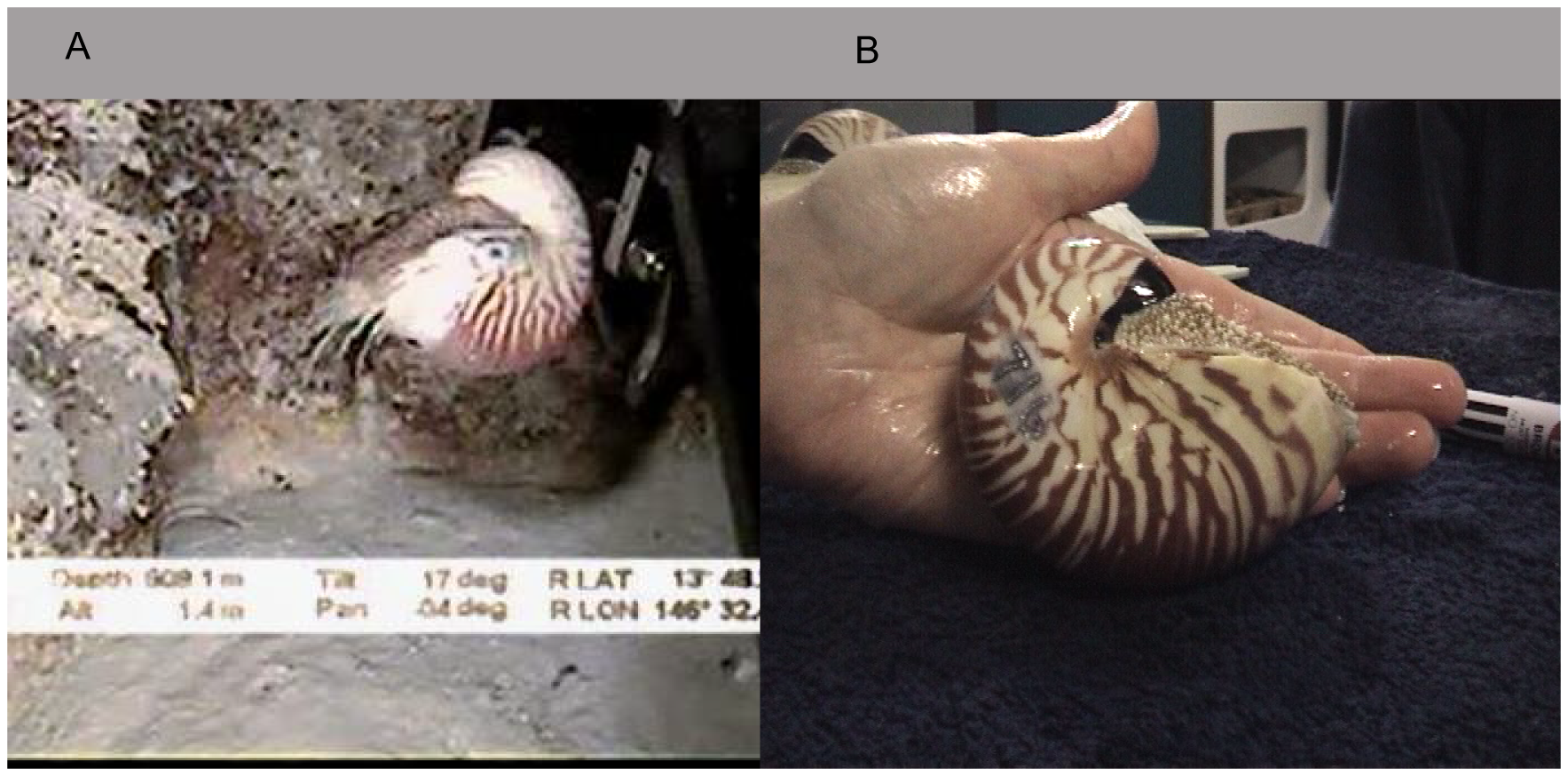 Original caption: "A: Juvenile N. pompilius about 70 mm shell length filmedfrom the ROV actively foraging at 608.1 m at North Horn, Osprey Reef. B: Nautilus # 716 with shell length of 89.5 mm captured by trap from 330 m. Note the cessation of color banding lines at the apertural margin and the start of this area becoming a fully white region, indicative of final juvenile stage."